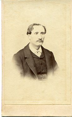 Photo (anonymous), carton; backside pencil notice: Heinrich Doetsch, 1866